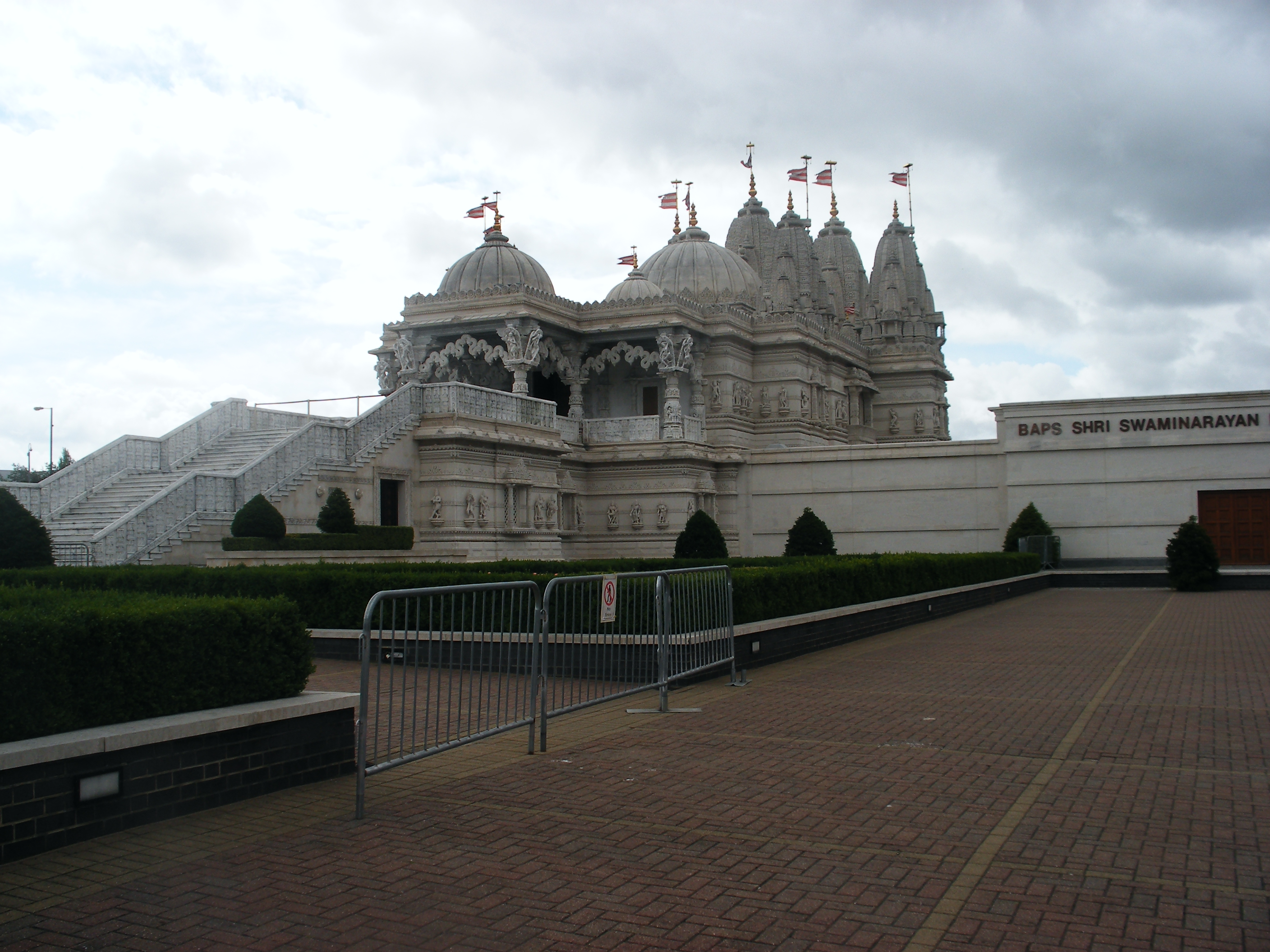 Temple, Neasden